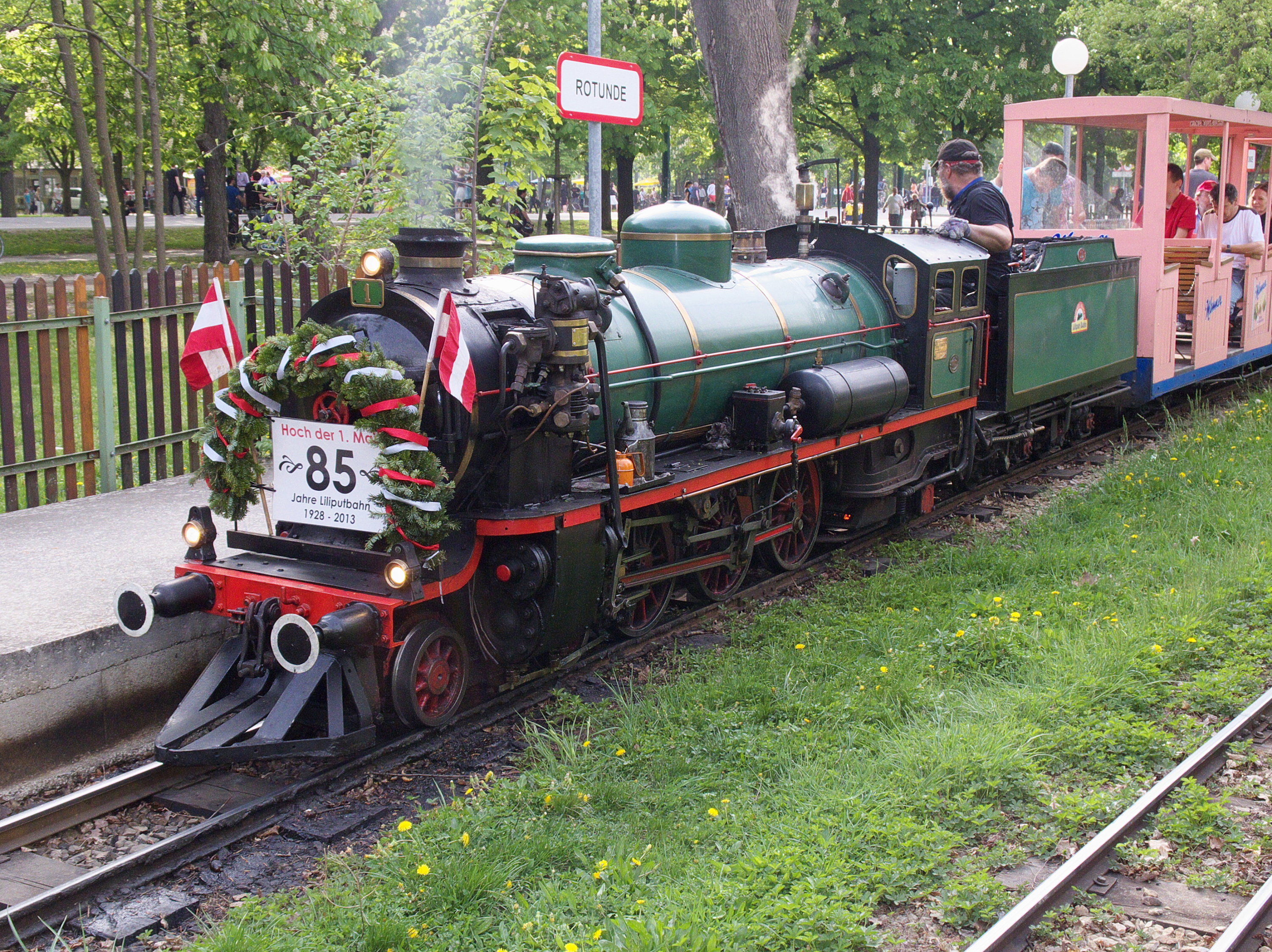 Liliputbahn Da1 with special train "85 years Liliputbahn" at Rotunde halt.